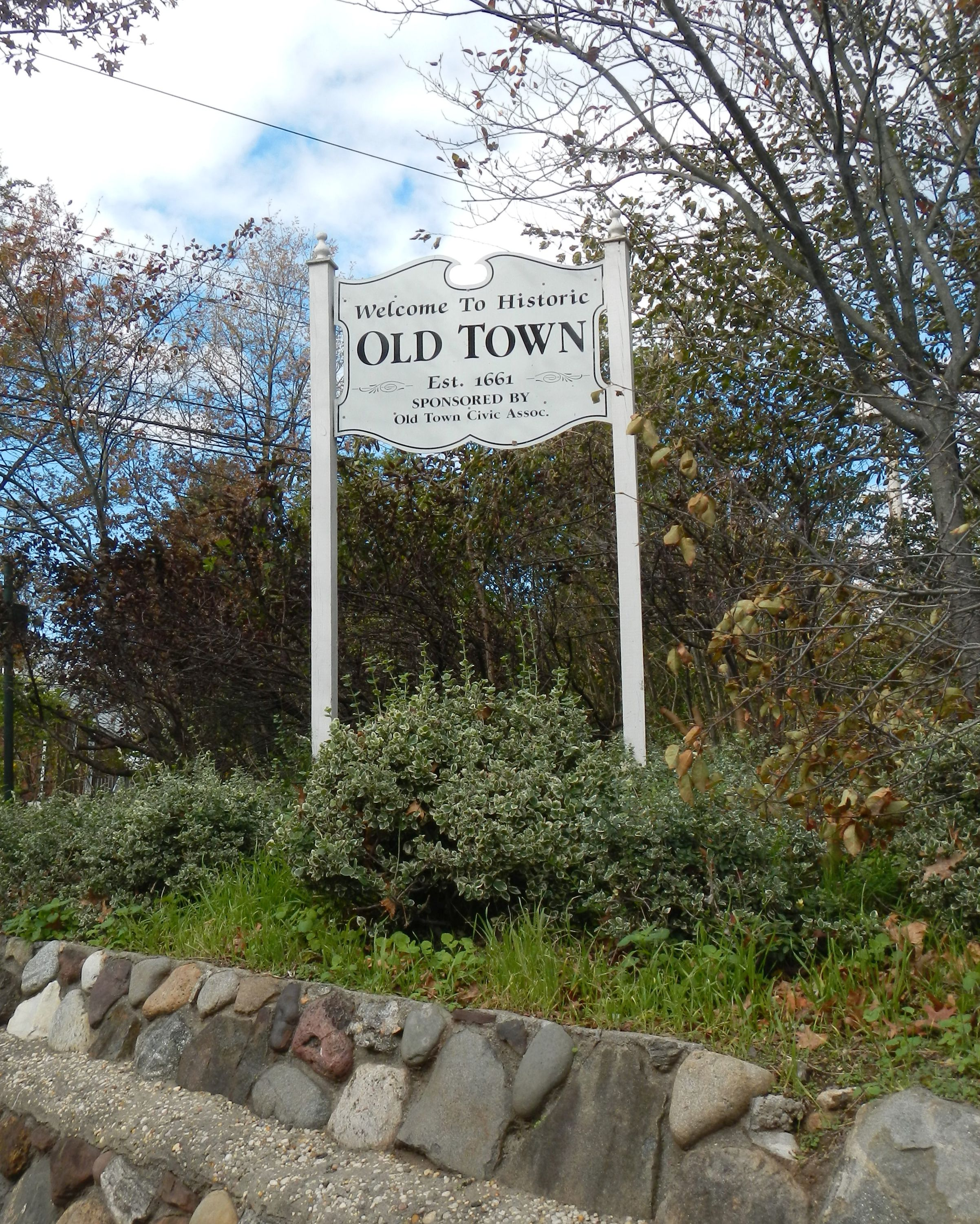 Looking northwest from Old Town Road at welcome sign on a partly cloudy midday.